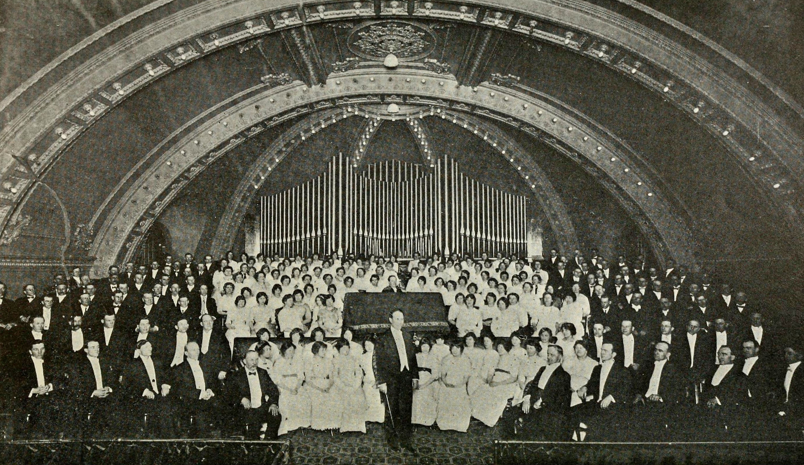 This is a photograph of the Ogden Tabernacle Choir and organ of the Weber Stake Tabernacle of The Church of Jesus Christ of Latter-day Saints (Mormon), published in 1914 in the Improvement Era magazine.